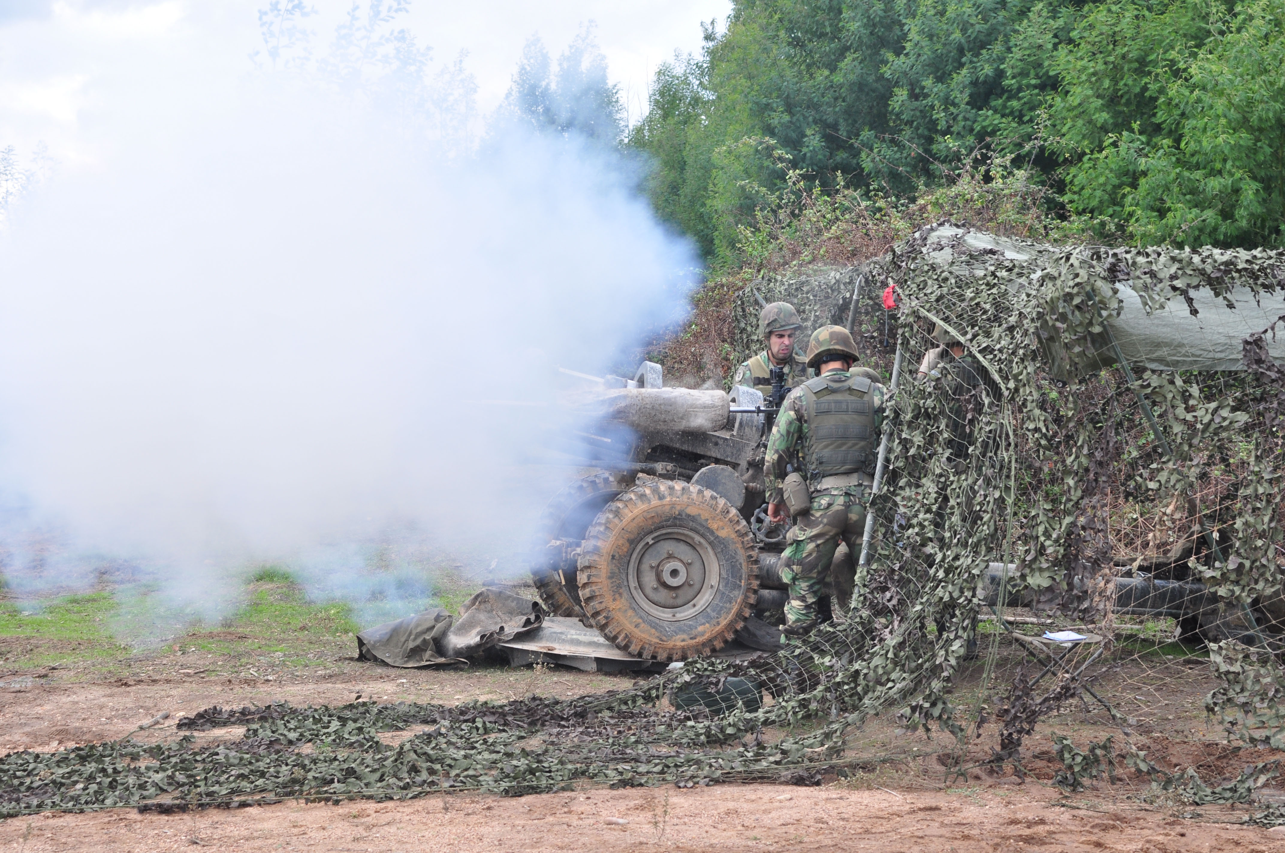 Firing Range of the Portuguese Field Artillery at Santa Margarida Military Camp on October 26, 2015 during Trident Juncture 15. NATO photo by Santa Margarida LOPSCON